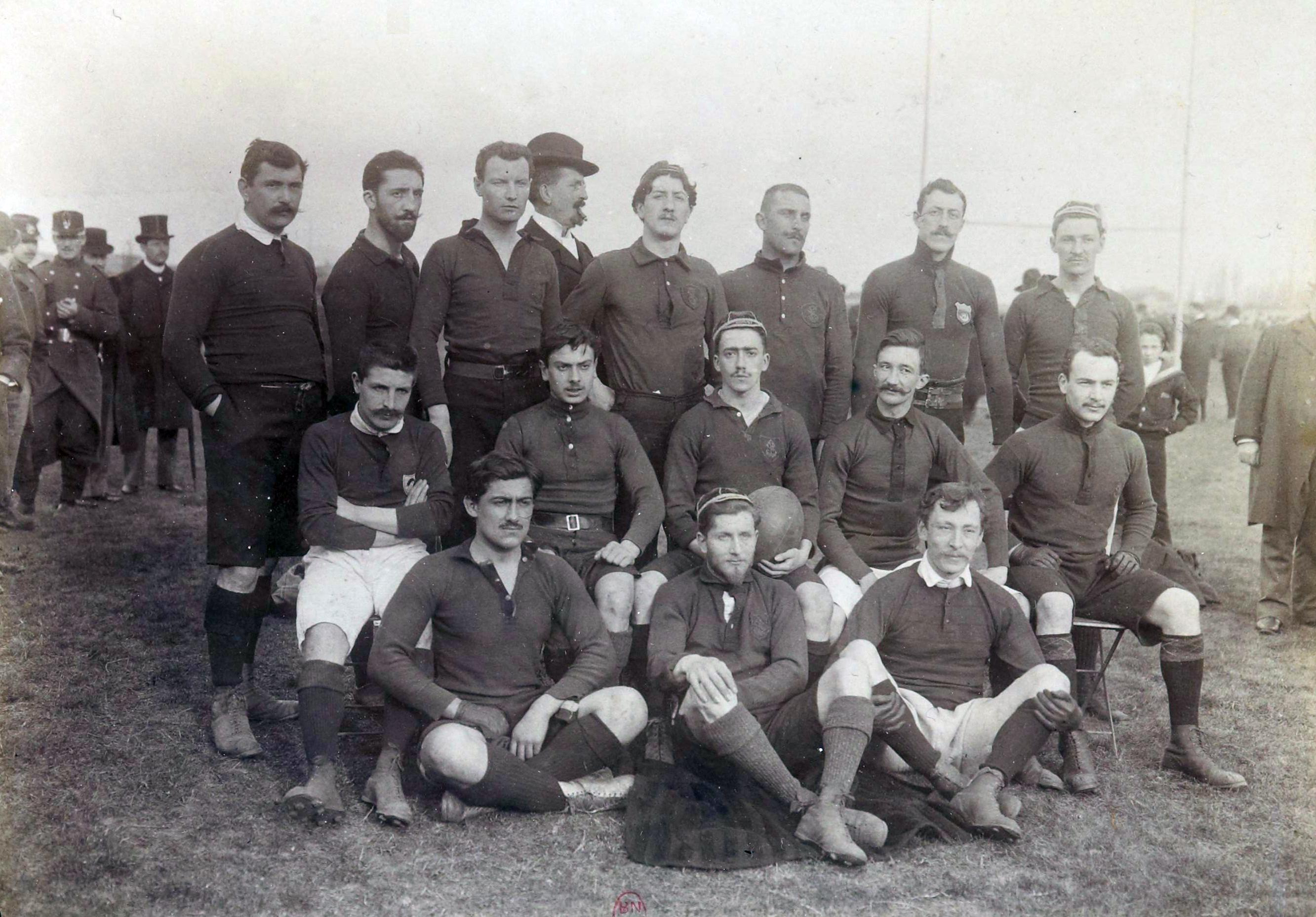 [Collection Jules Beau. Photographie sportive] : T. 11. Années 1898, 1899 et 1900 / Jules Beau : F. 16v. Stade français, 1899 (p.036). Debout, de gauche à droite: Truppel, Robert de Brun, Joseph Olivier, Garcet de Vauresmont (prés. commission rugby), Louis Dedet, Dumaine, Raymond Bellencourt, Ch. Bernard. Assis: Henri Amand, Chenu, Maurice Moulu (cap), Félix Herbert, Paulo da Silva Paranhos. Au sol: Robert Blanchard, Auguste Giroux, Edmond Mamelle.